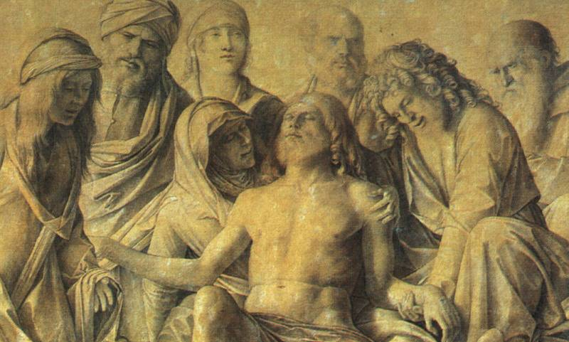 The Lamentation Over the Body of Christ by Giovanni Bellini